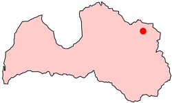 Location map of Alūksne city, Latvia.